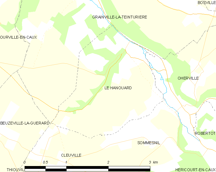 Map of French municipality Le Hanouard